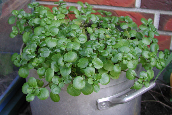 Watercress